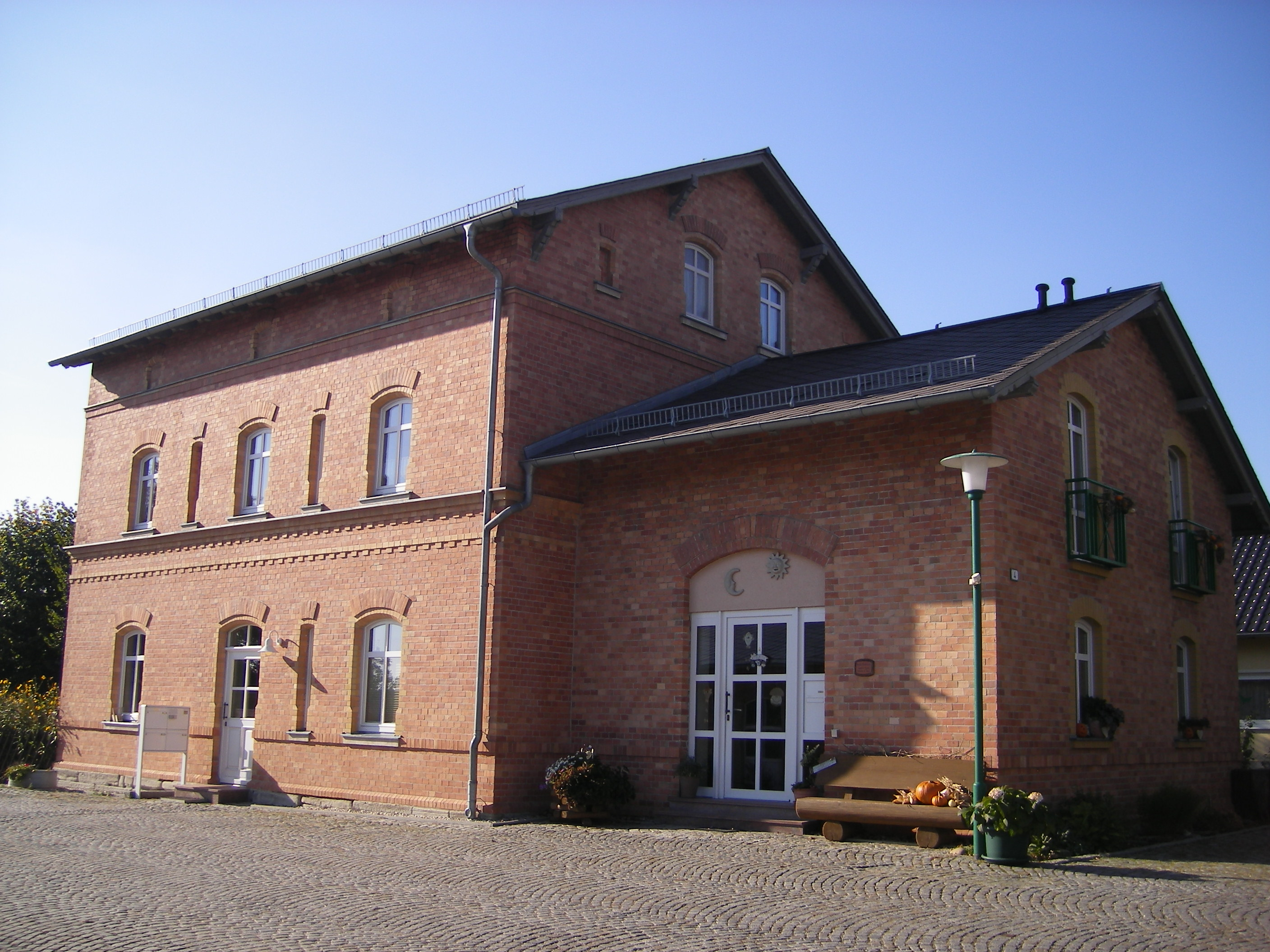 Ancient train station in Dobitschen near Altenburg/Thuringia